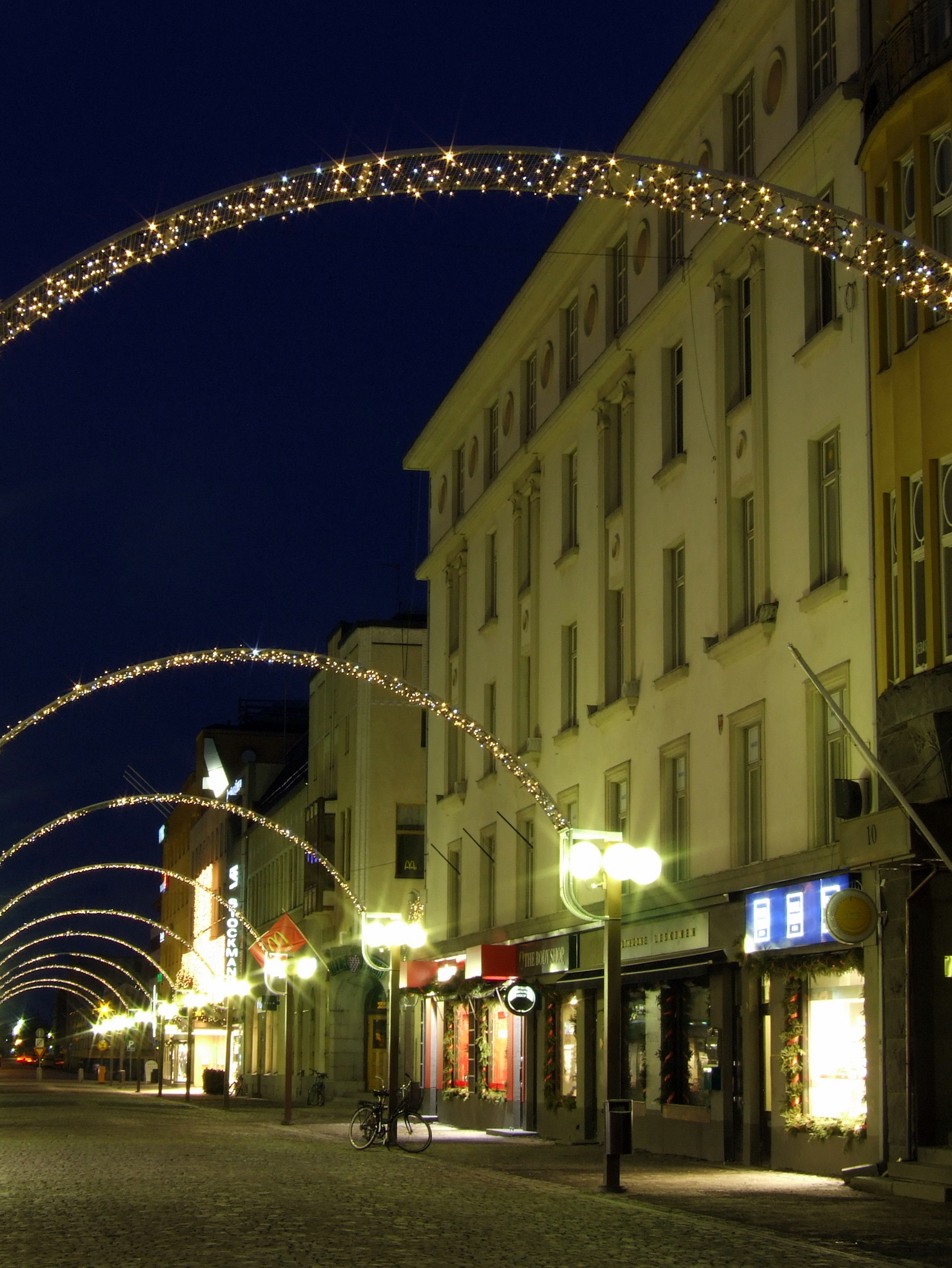 Kirkkokatu street with Christmas lights in November.